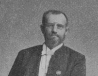 Portrait of Václav Březnovský (1843 - 1918), Czech politician. It was cropped from a group photo of Prague city councillors attending Victor Hugo's festivities in Paris.